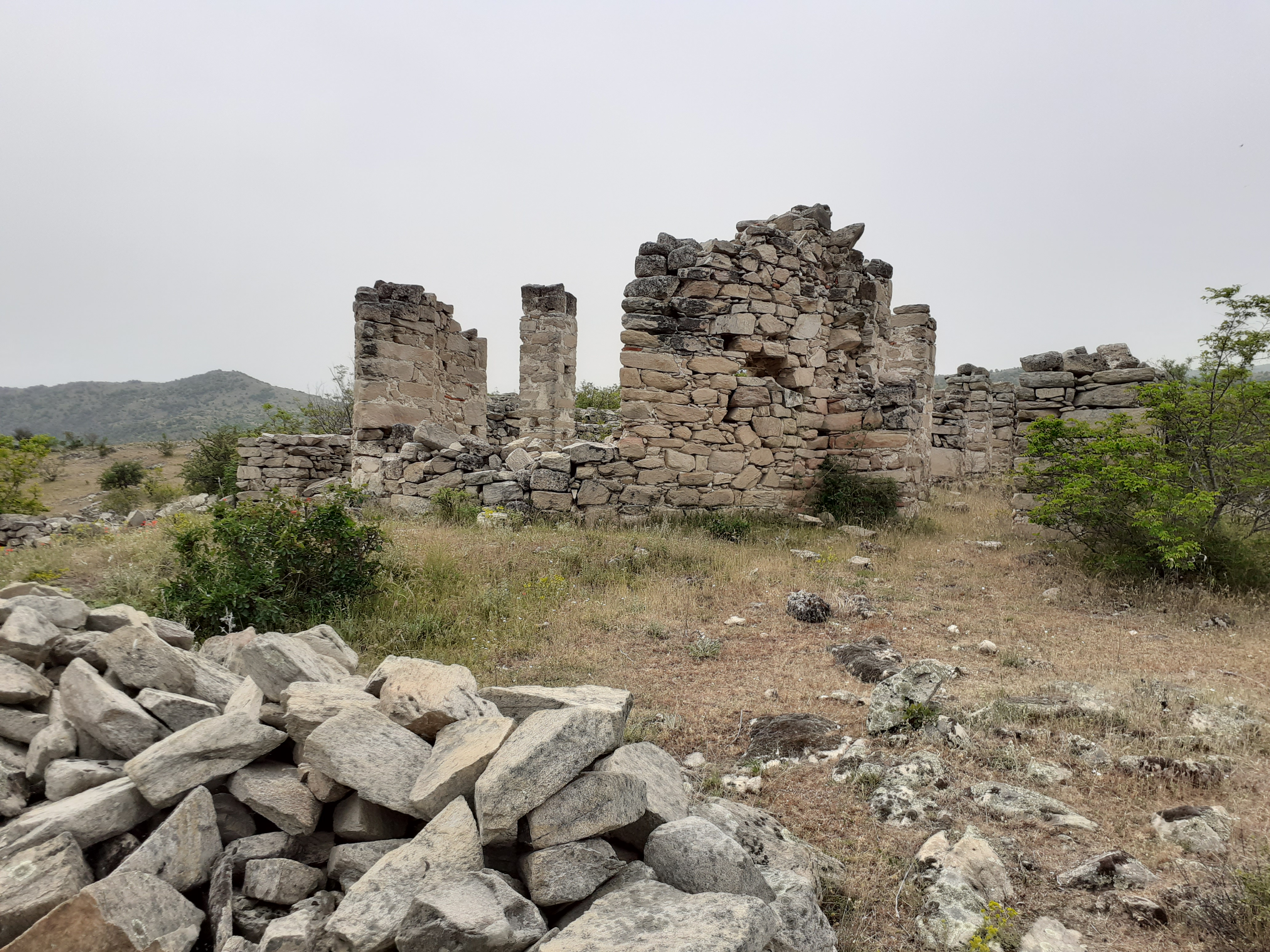 The ruins of cathedral in ancient and medieval city or Antania in Mariovo region, Macedonia